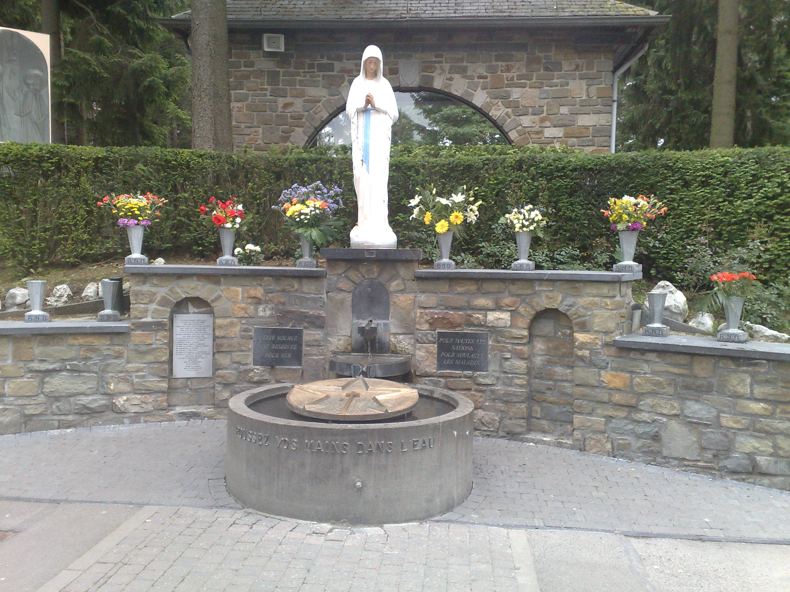 The statue and source of Mary Virgin of the poor at Banneux